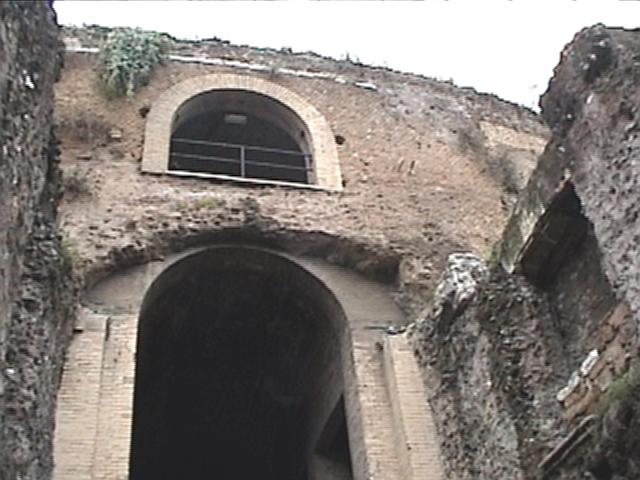 The entryway to the Mausoleum of Augustus.]